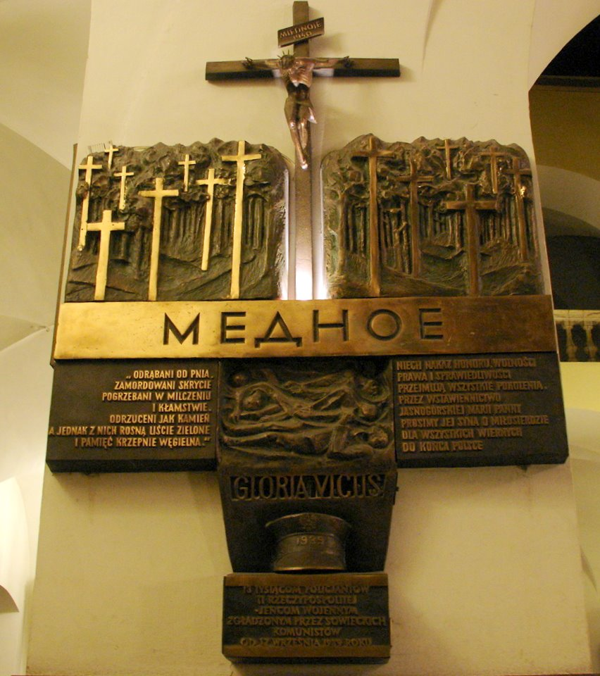 A plaque commemorating the tragedy in Miednoje (placed at chapel o Black Madonna, Jasna Góra, Częstochowa, Poland).